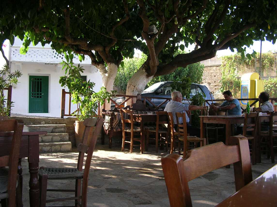 Cafe in Koufi, Rethymno, Greece